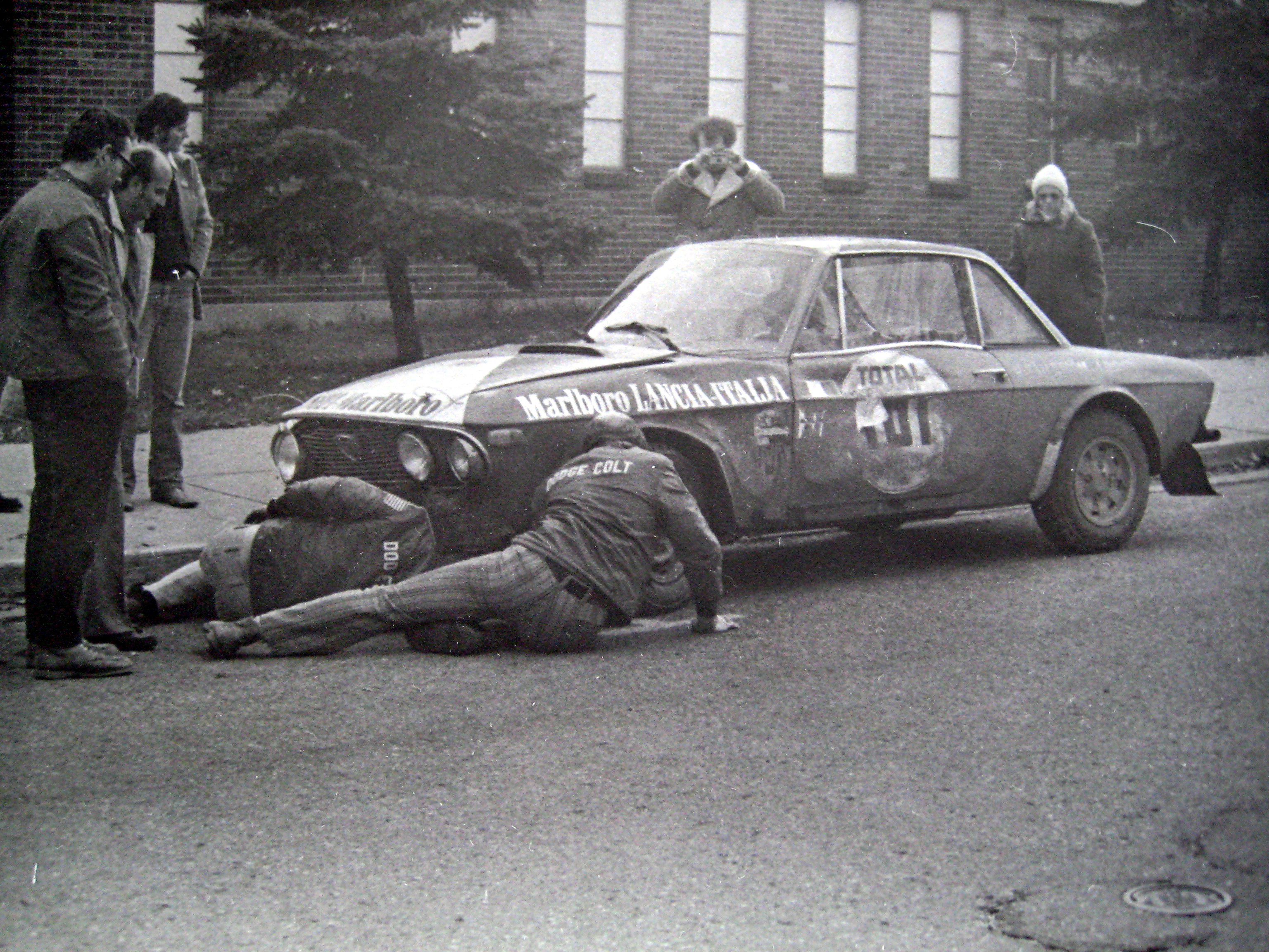 Lancia factory team driver Harry Källström's Lancia Fulvia 1.6 Coupé HF at the 1972 Press-on-Regardless Rally. Källström's co-driver at the event was John Davenport. The pair retired after crashing out.